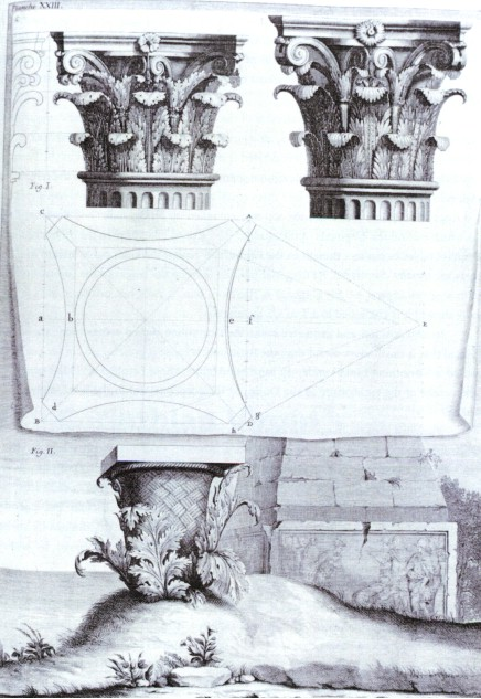 The Origin of the Corinthian Order, engraving